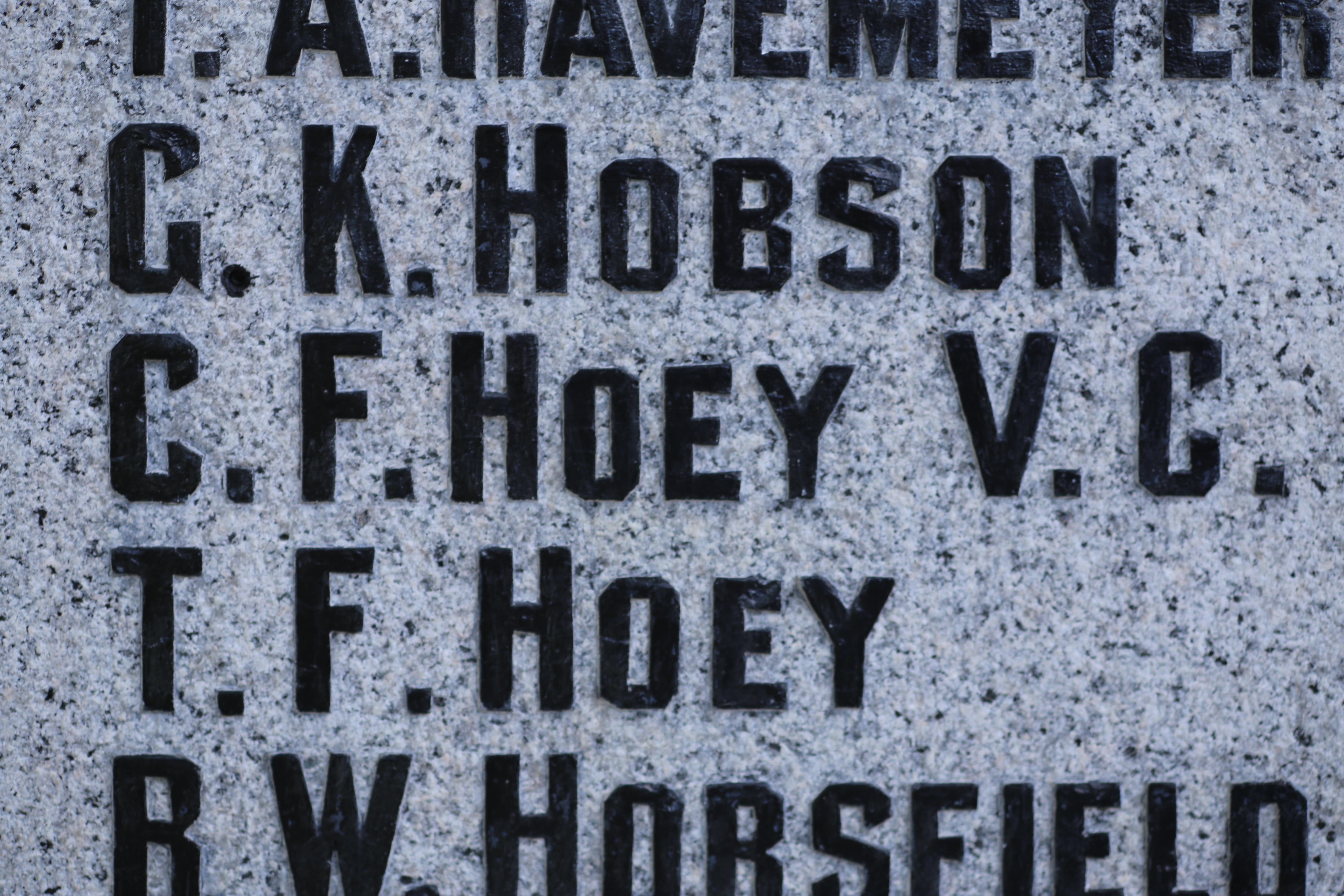 Charles Ferguson Hoey, VC as inscribed on the cenotaph in downtown Duncan, BC. Located at the Charles F. Hoey, VC Memorial Park at Canada Avenue and Station Street